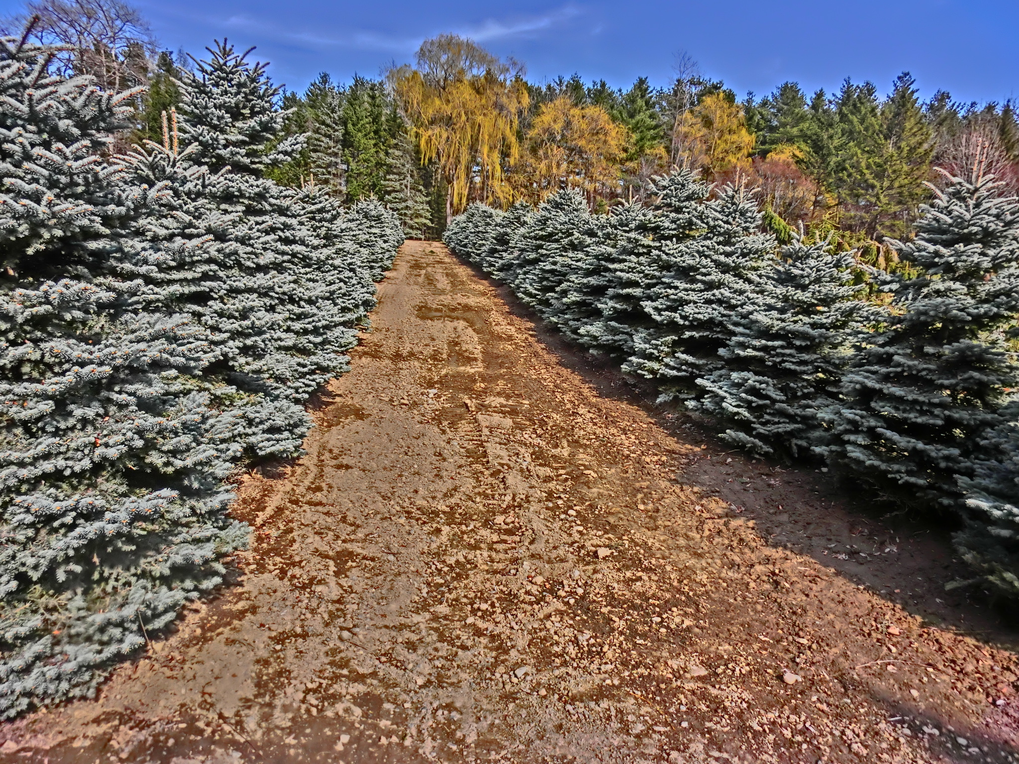 Picea pungens Hoopsii